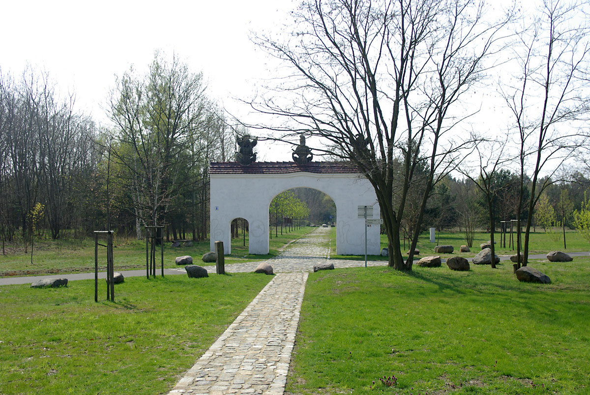 Village of Klinge - The Raubrittertor (The Robber-Knight's Gate), Brandenburg, Germany